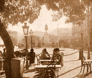 Mansheya square in Alexandria, Egypt (1924)